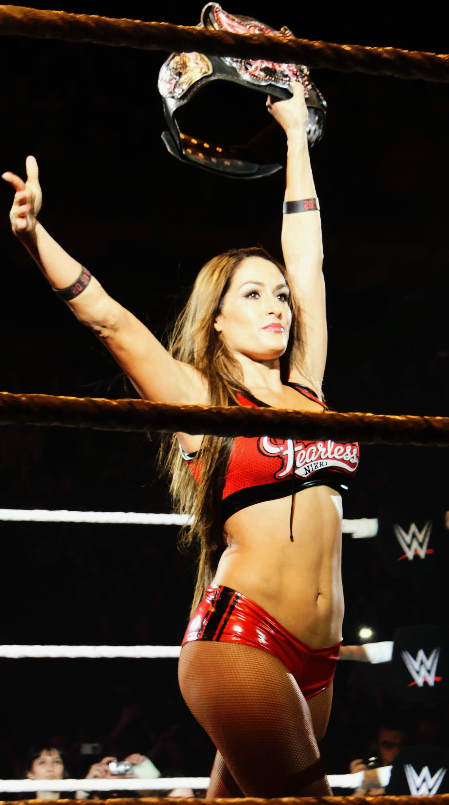 Nikki Bella as Divas Champion during a WWE live event in April 2015.